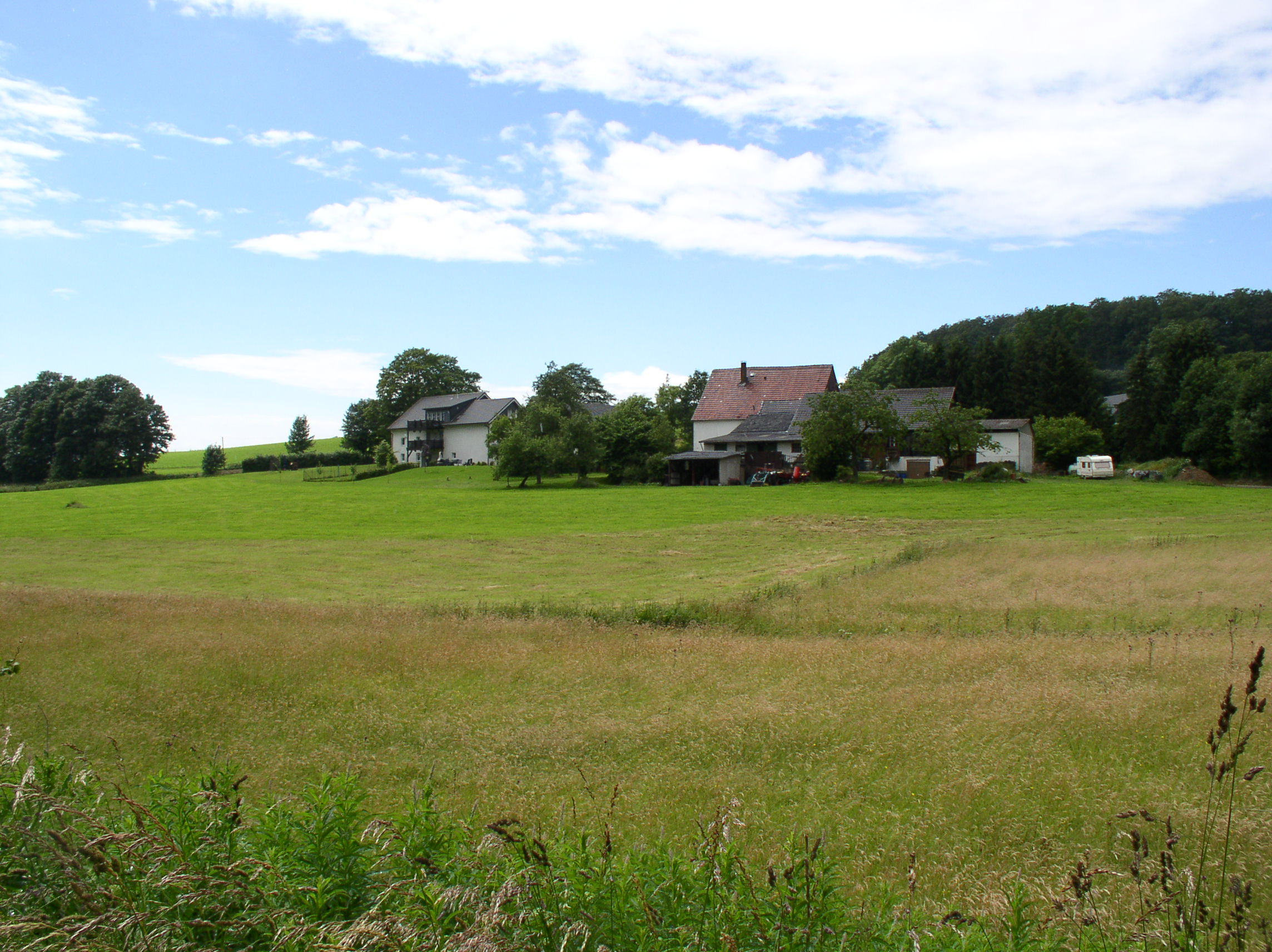 Halver-Vorst